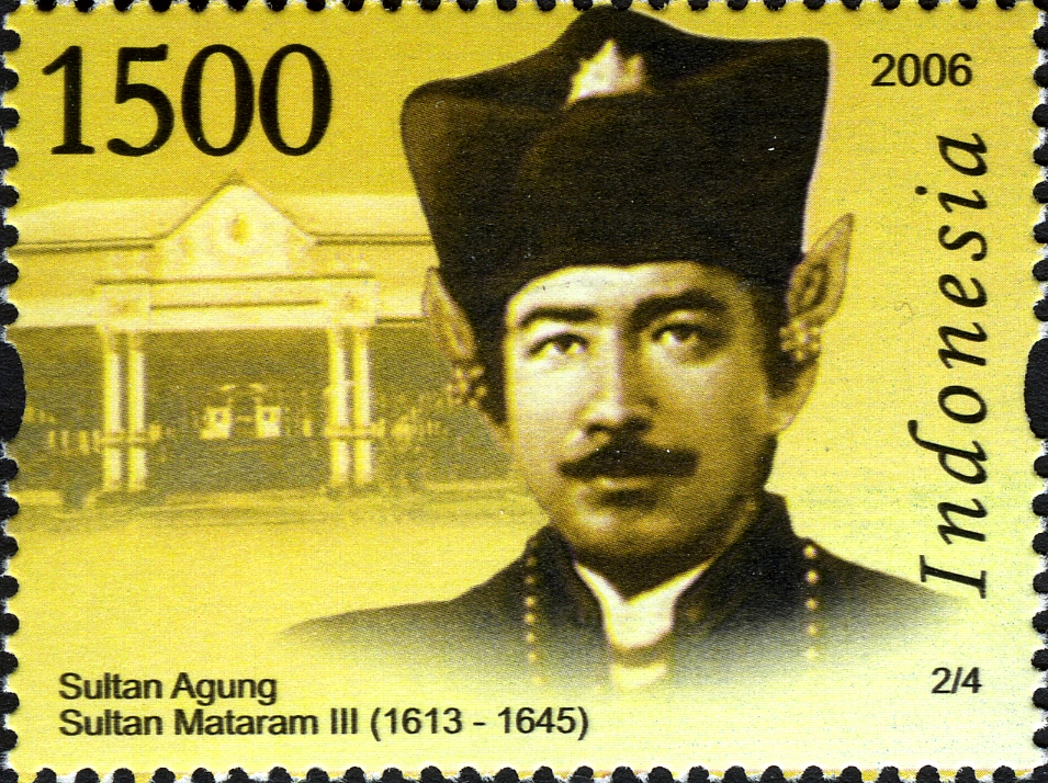 Stamps of Indonesia